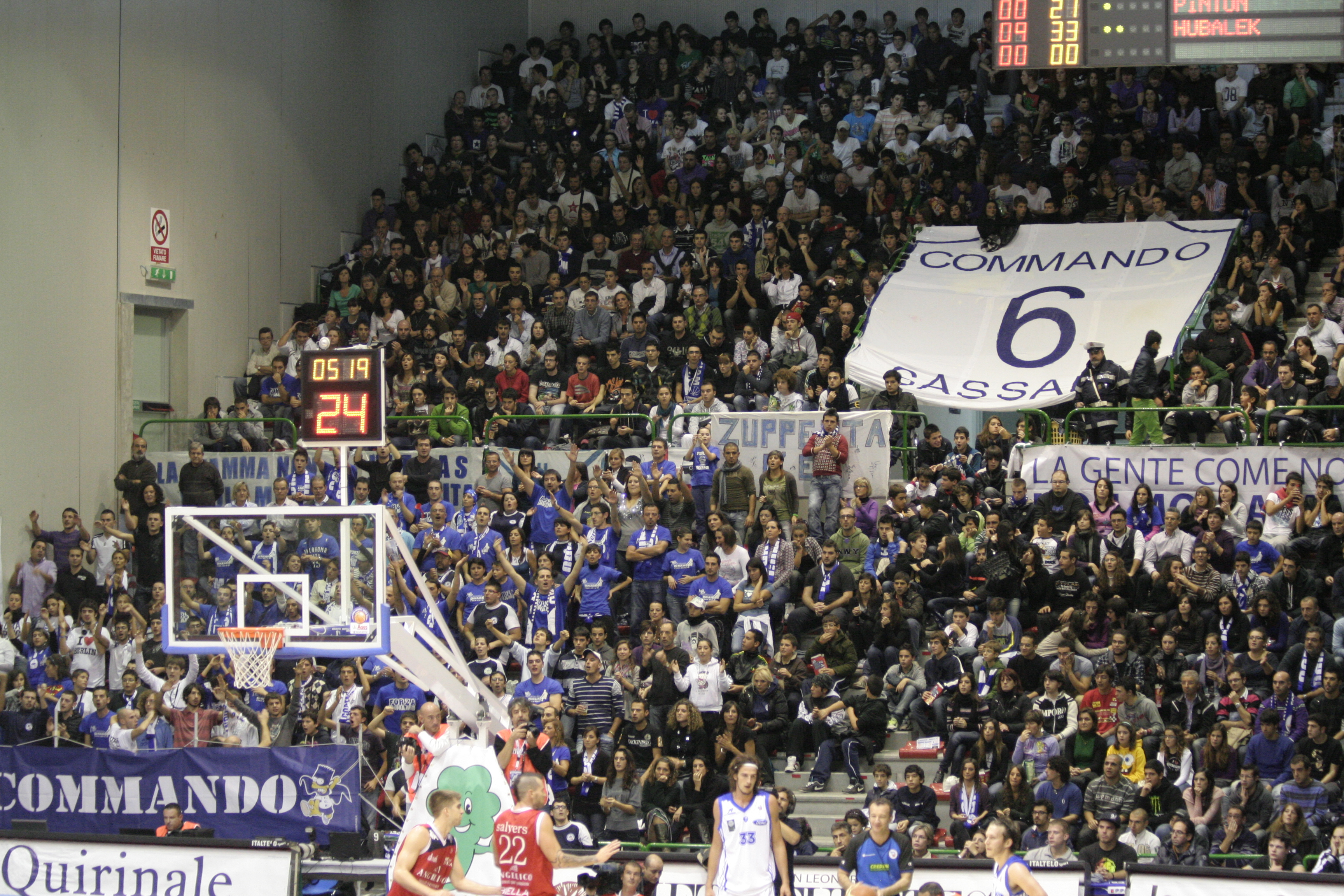 Supporters of Dinamo Sassari